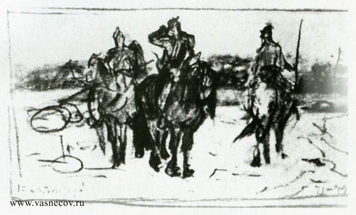 First sketch of "Bogatyrs" by Viktor Vasnetsov.